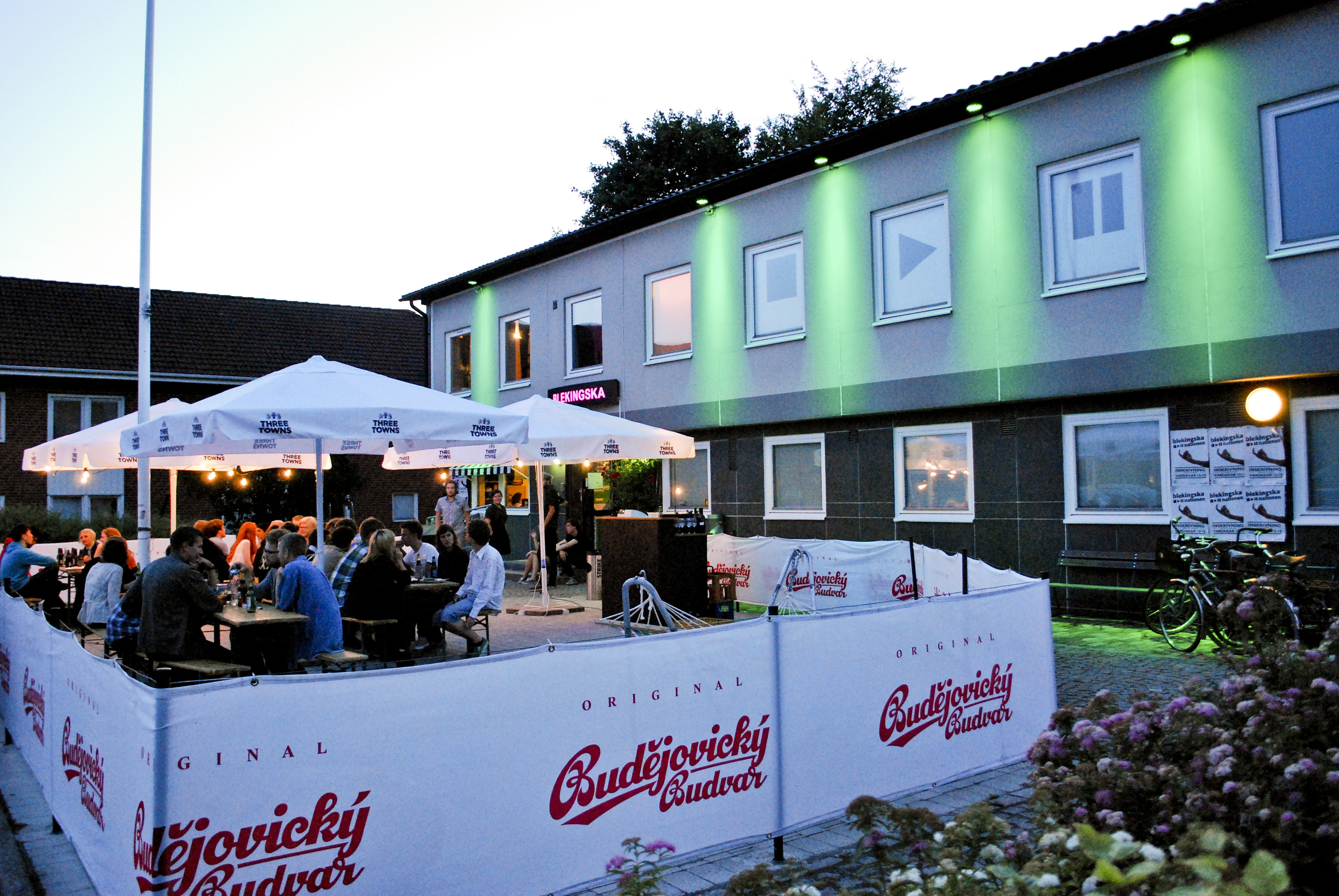 The main building and the beer garden of the Blekingska student nation in Lund, Sweden.